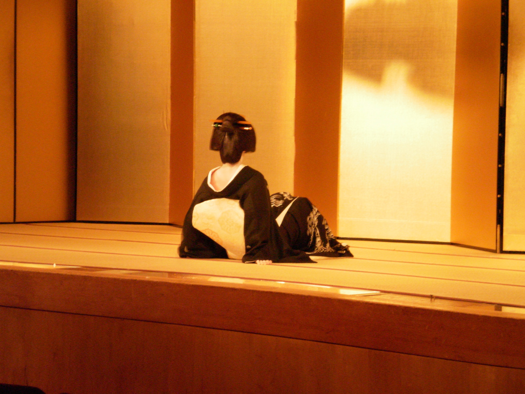 Geisha Mamehiro dancing Kurokami